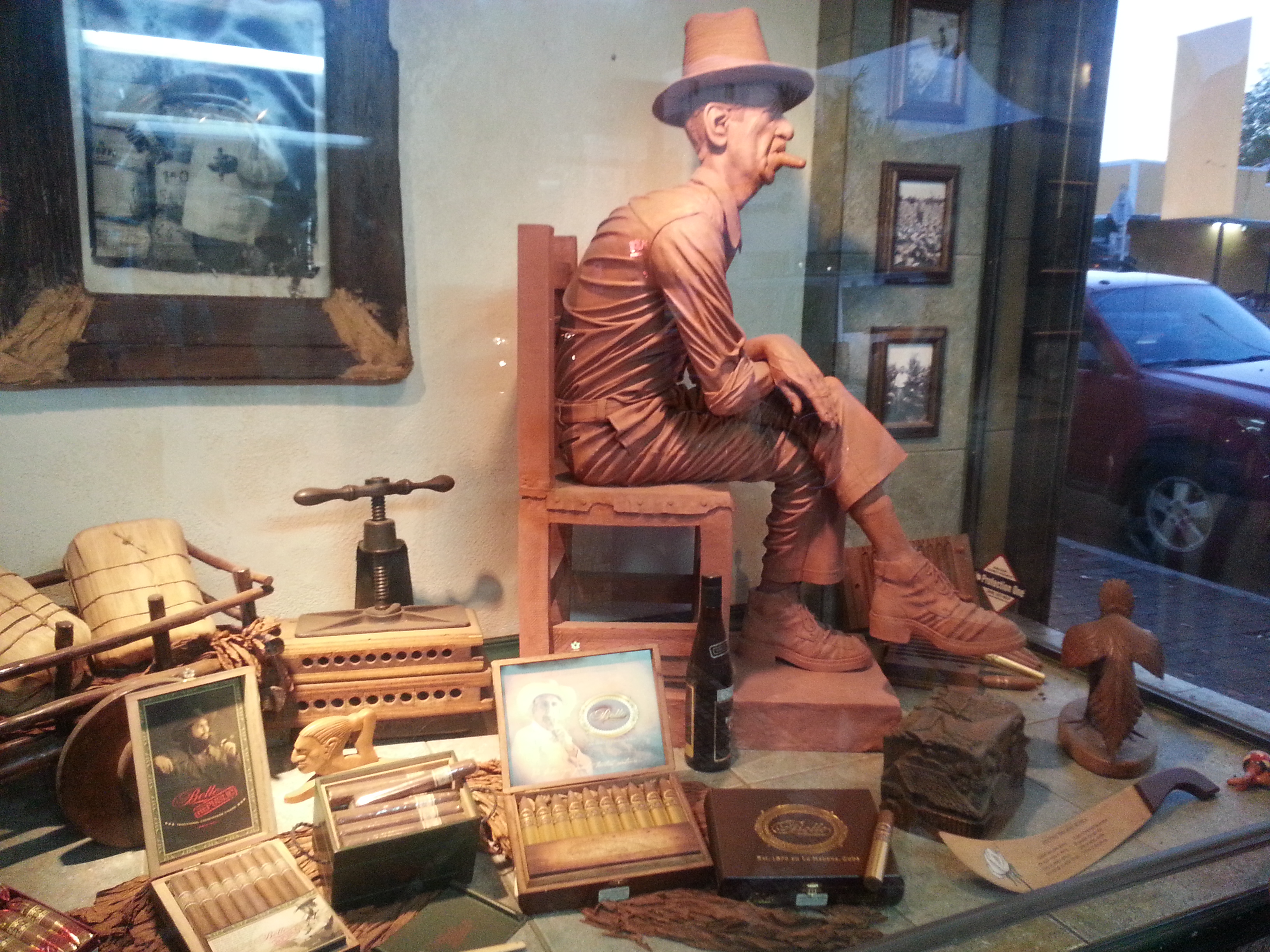 Miami Beach, Florida